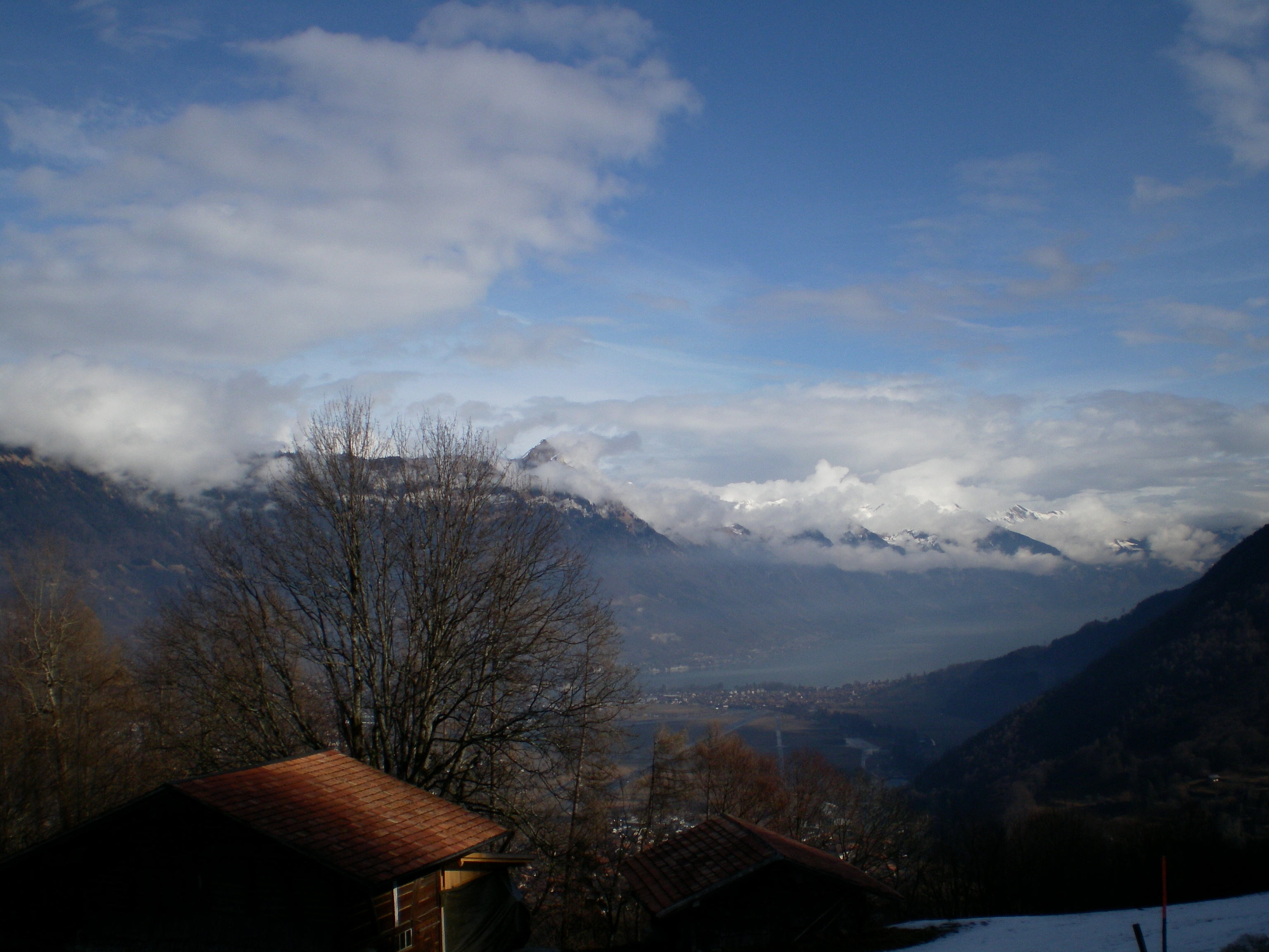 wiew of interlaken and brienz lake from saxeten